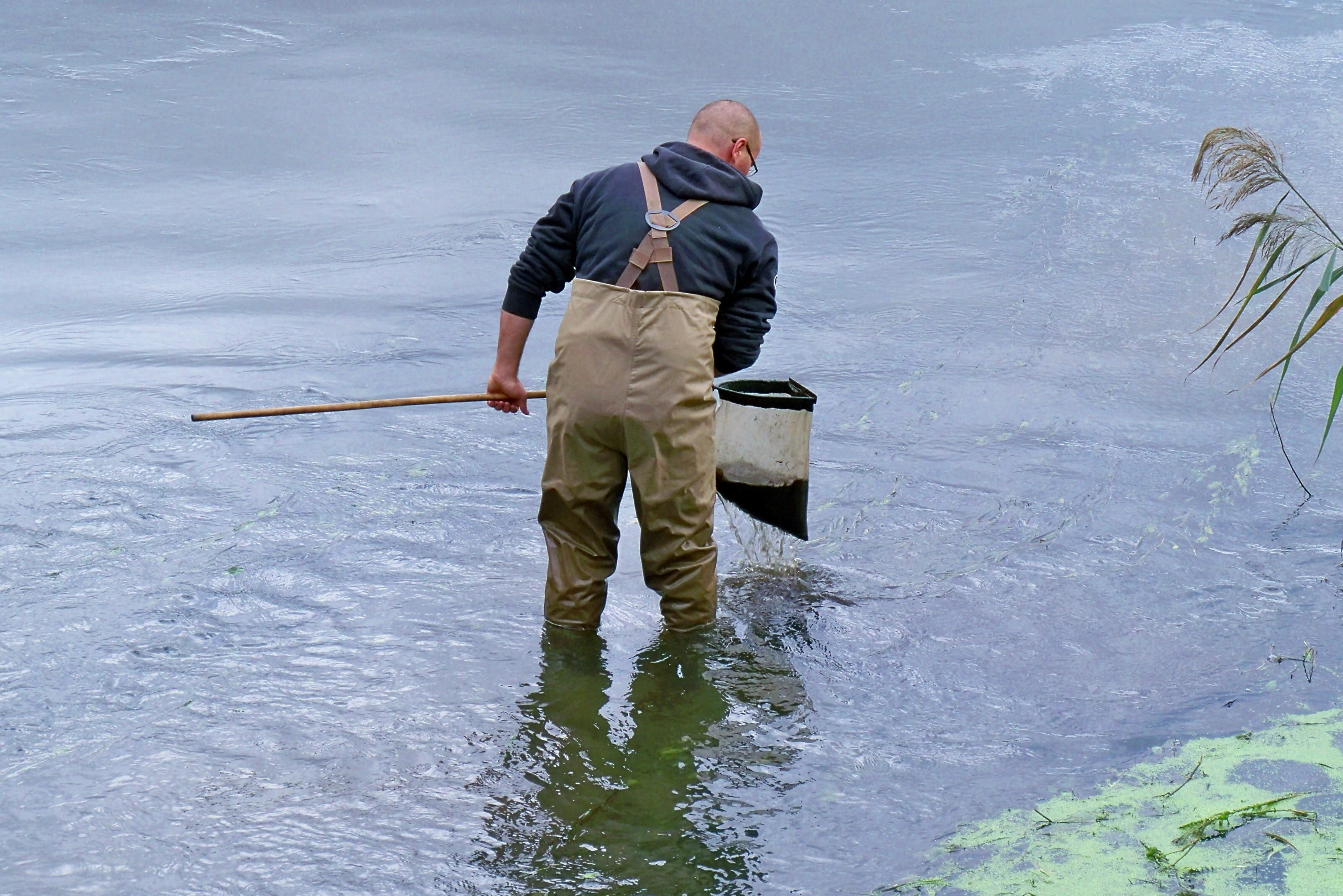 Riverine benthos collecting